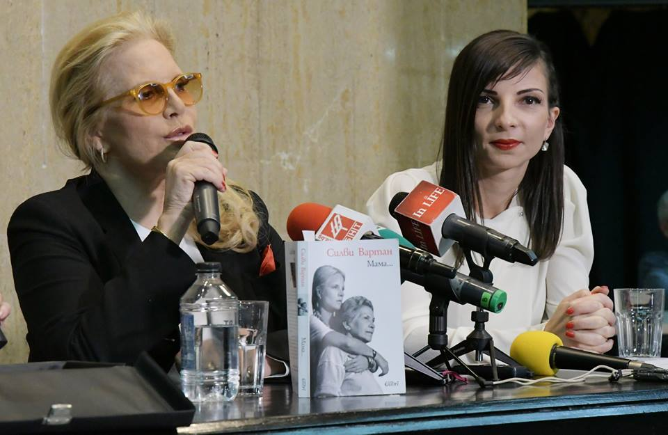 Presentation of the book by Silvi Vartan "Mama .." by Kolibri Publishing House at the Book Fair in Sofia